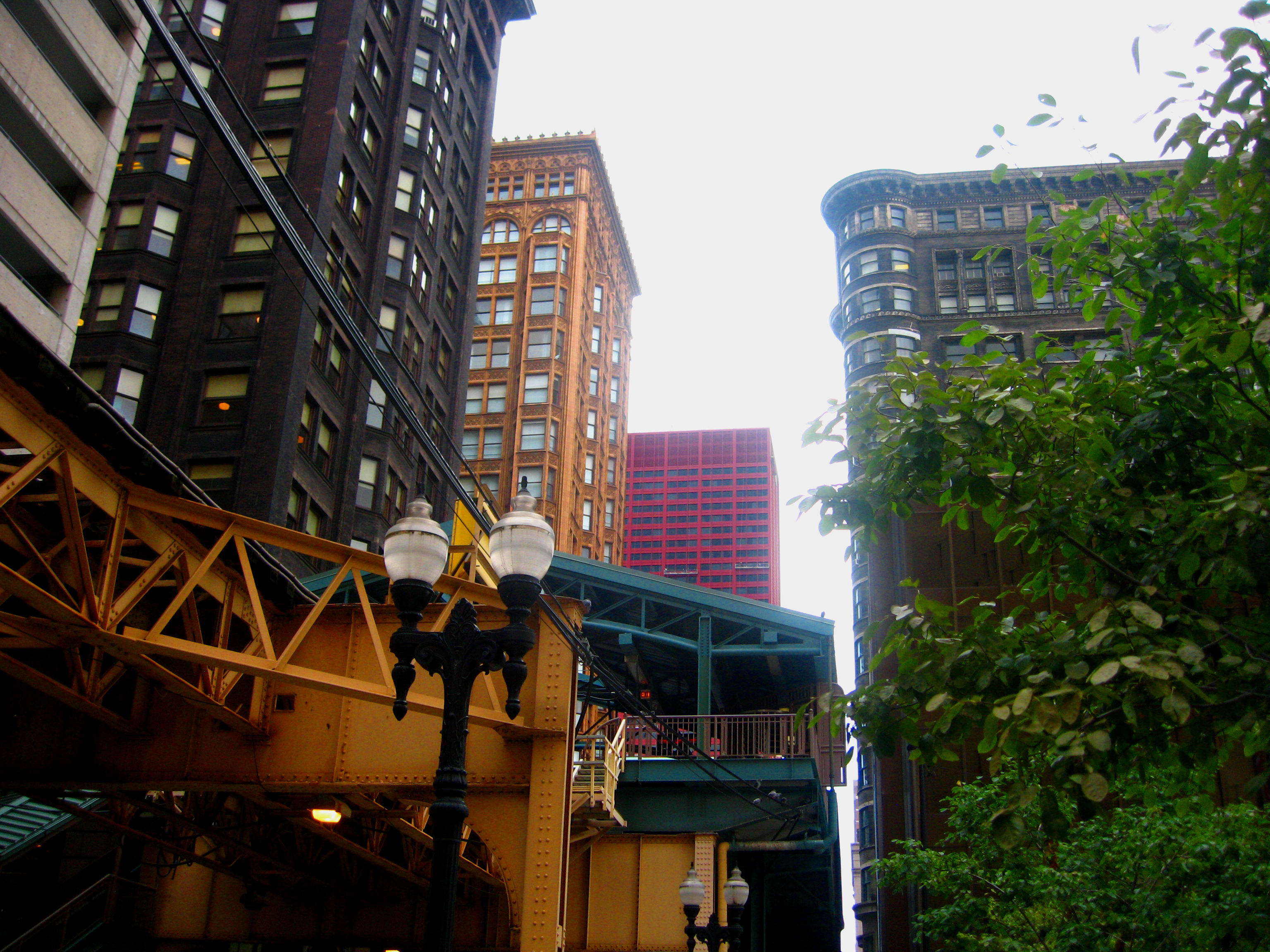 South Dearborn Street History District, Chicago, from Van Buren street facing east. The Monadnock building is in on the left, behind the west end of the Library-State/Van Buren Chicago 'L' station. The Fisher Building and the red CNA Center are behind. The Old Colony building is on the right.